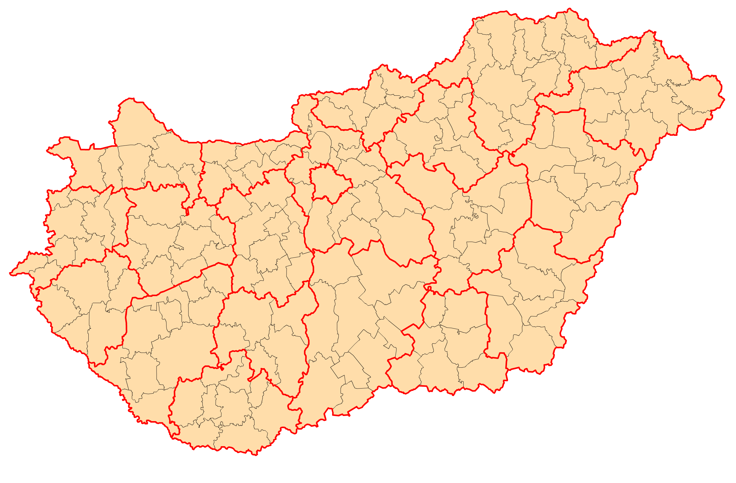 Administration borders of Hungary (counties and small regions). 2006 Created: myself